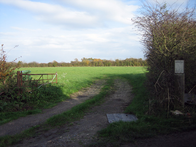 A field empty of folk. In Langland's "Piers Plowman", the phrase "a field full of folk" is used to conjure up a medieval festive gathering. This field, also spreading north into the next square, is briefly "full of folk" in summertime when it is the location for small gatherings of campers attending Dance Camps, Drum Camps etc. Only the bin by the gate gives an inkling of this field's other purpose. Contrast 605863 Elsewhere, in TM3583, there is more evidence: 605858 and 605861.